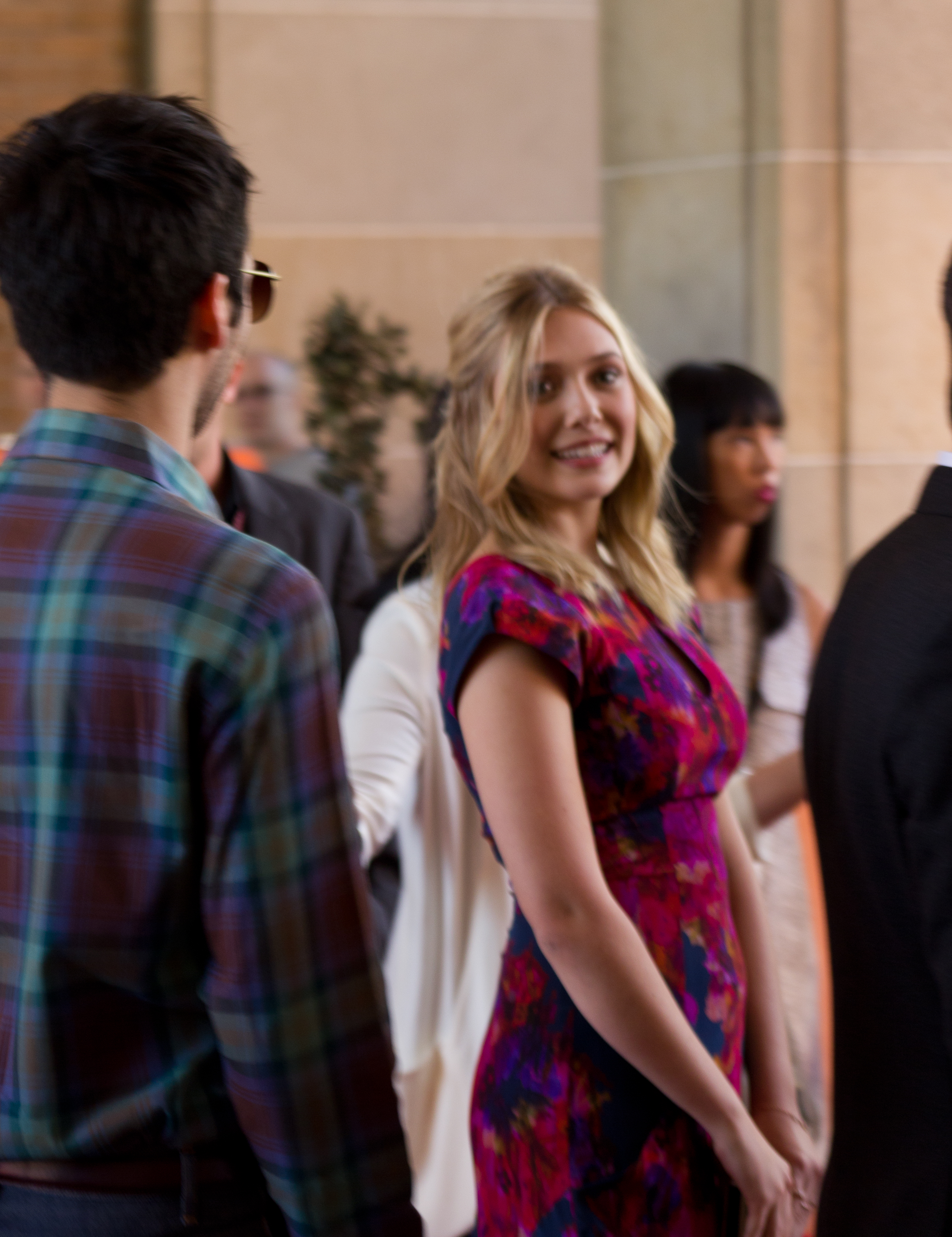 At the premiere of "Martha Marcy May Marlene", directed by Sean Durkin, during the Toronto International Film Festival, 2011.